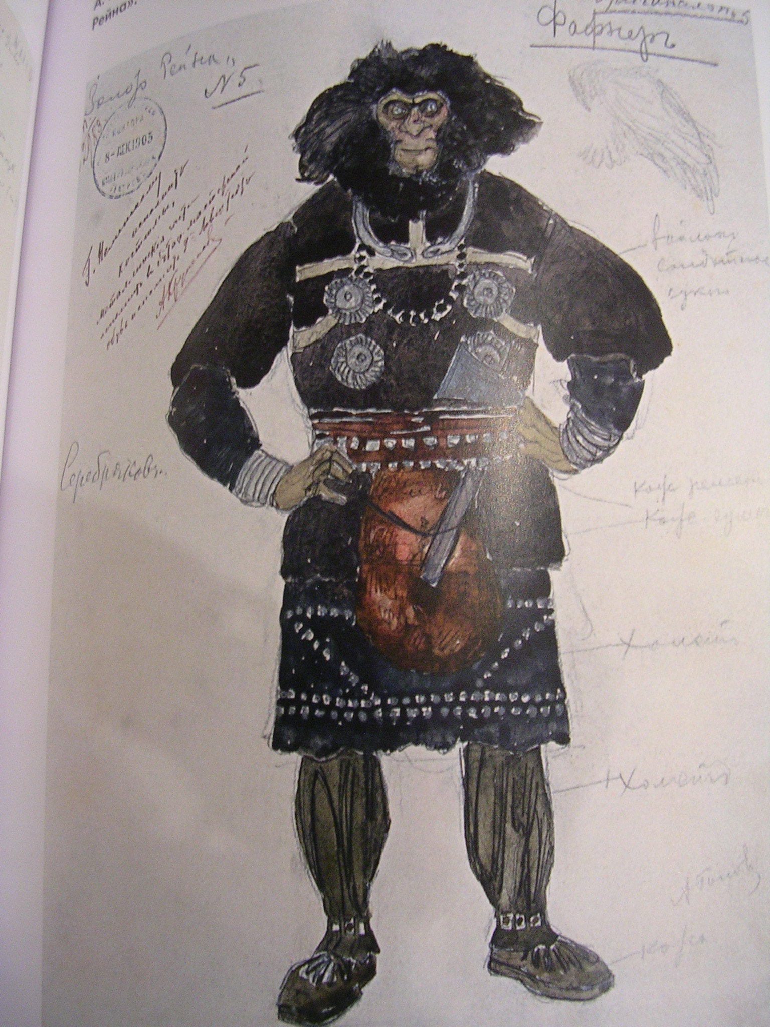 Costume design for Fafner ("Das Rheingold" by Wagner), Mariinsky Theater